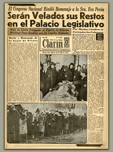 Cover for Clarín newspaper.